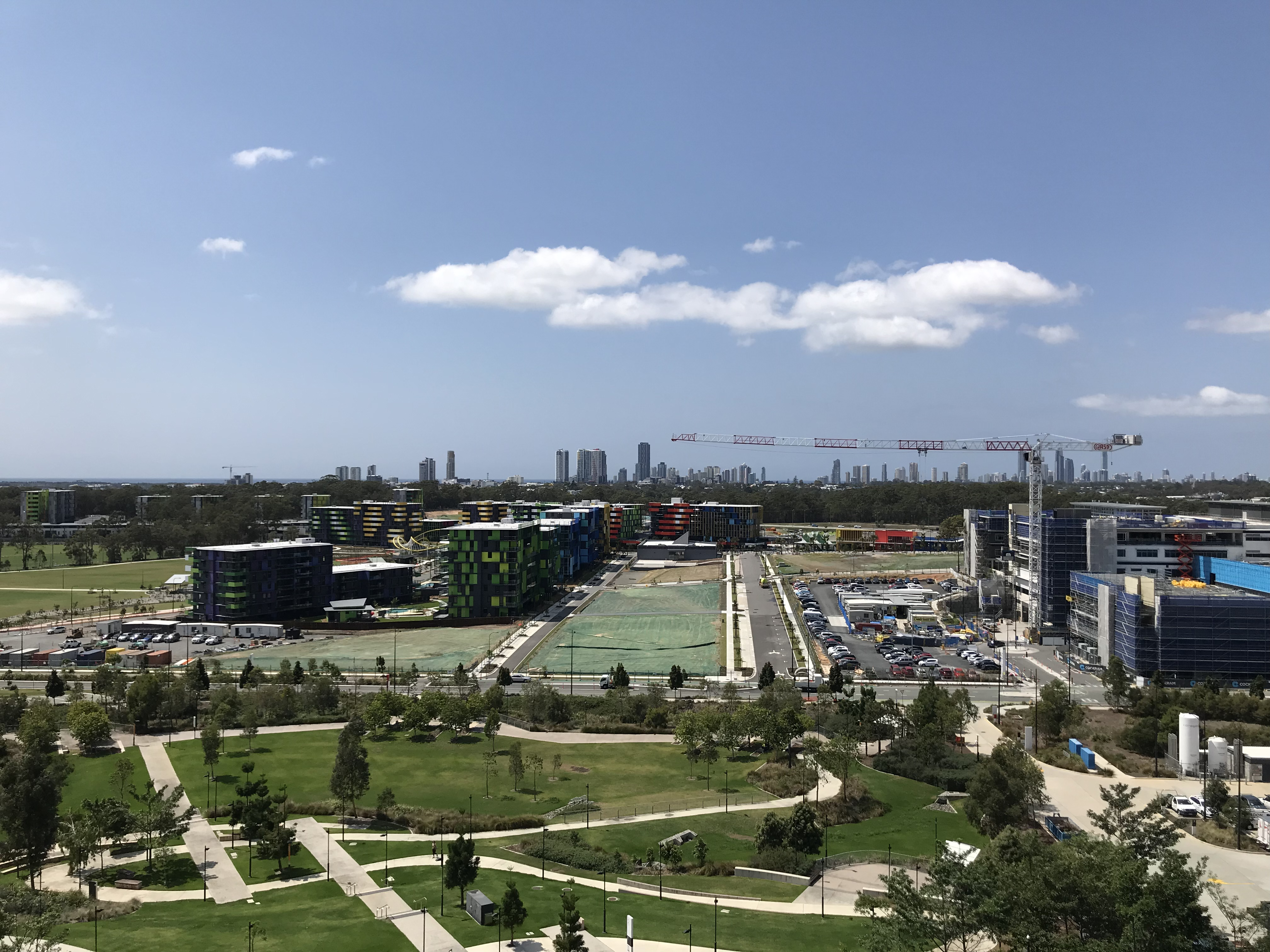 The 2018 Commonwealth Games Village, Parklands, Southport, Gold Coast, Queensland